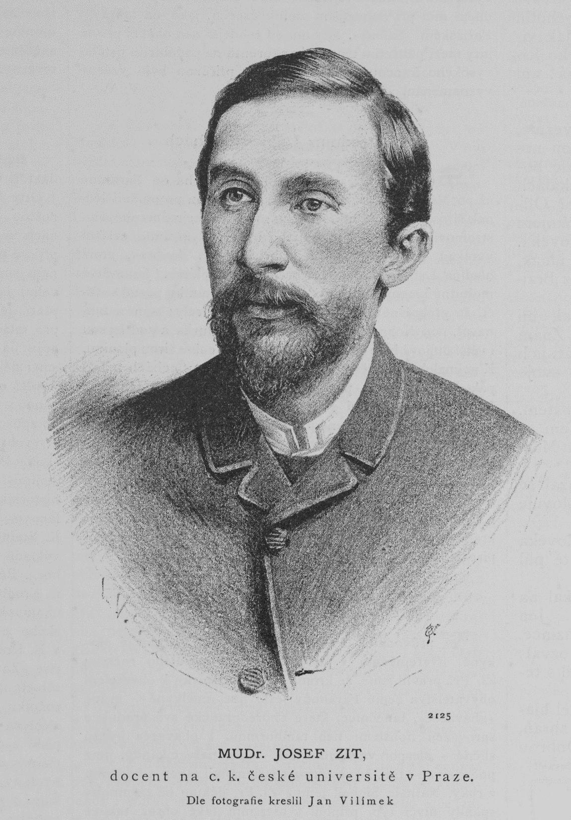 Portrait of Josef Zít (1850 - 1887), Czech doctor - pediatrician.